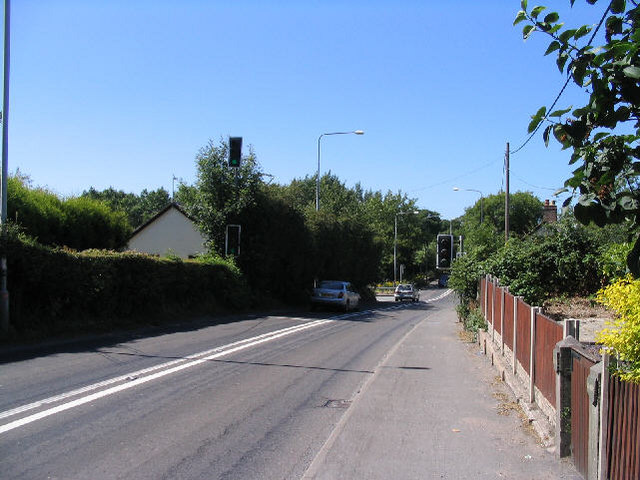 Traffic Lights at Alltami. As the comment on a neighbouring gridsquare says, this will be familiar to many people coming into the Mold area along the A494. Unusually, the lights are on green in this photo!